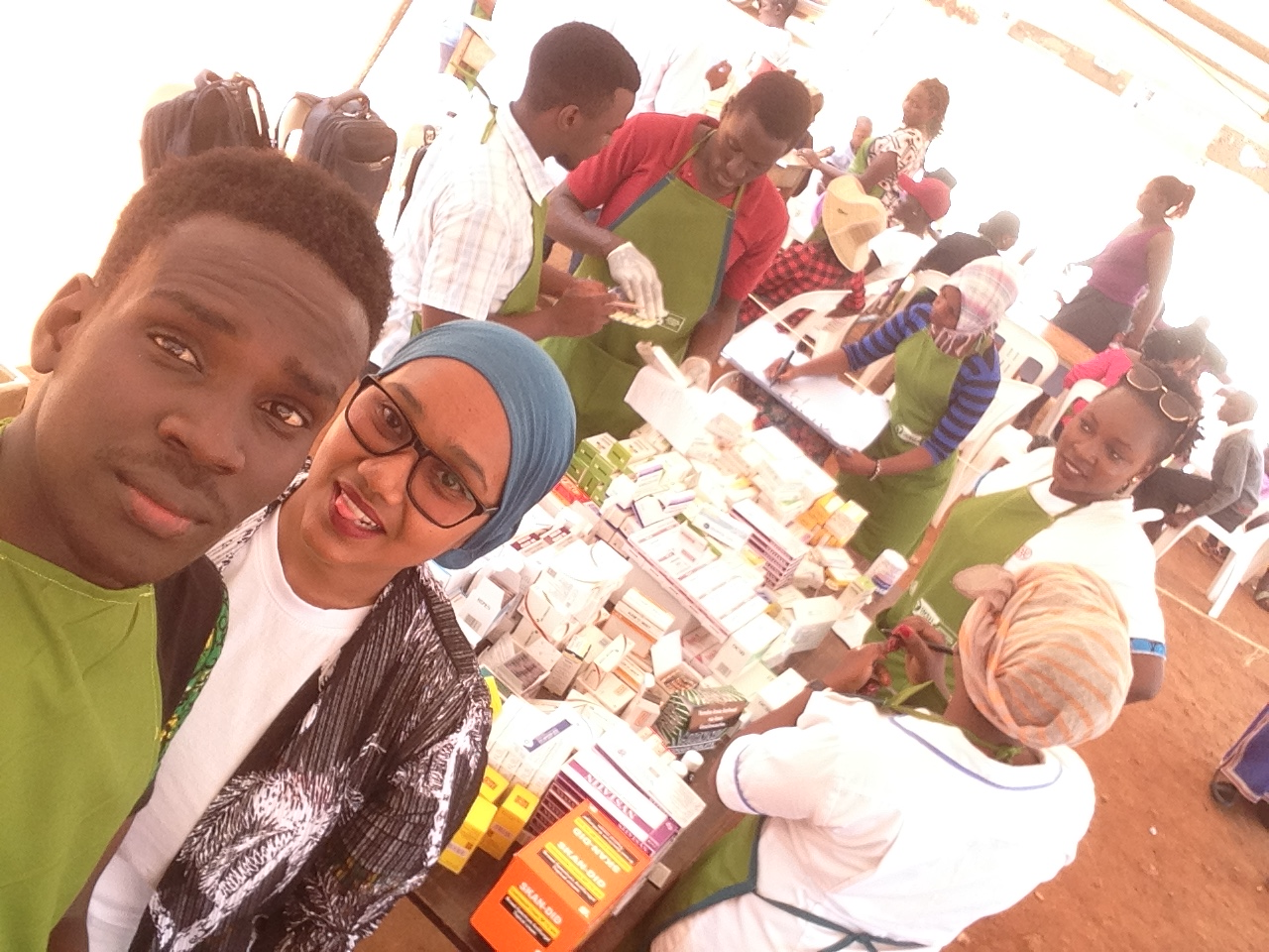 This photo was taken during a medical camp in Namuwongo a suburb in Kampala Uganda. It was organised by the rotaract club of IHSU, a non-governmental organisation This is an image of "African people at work" from Uganda